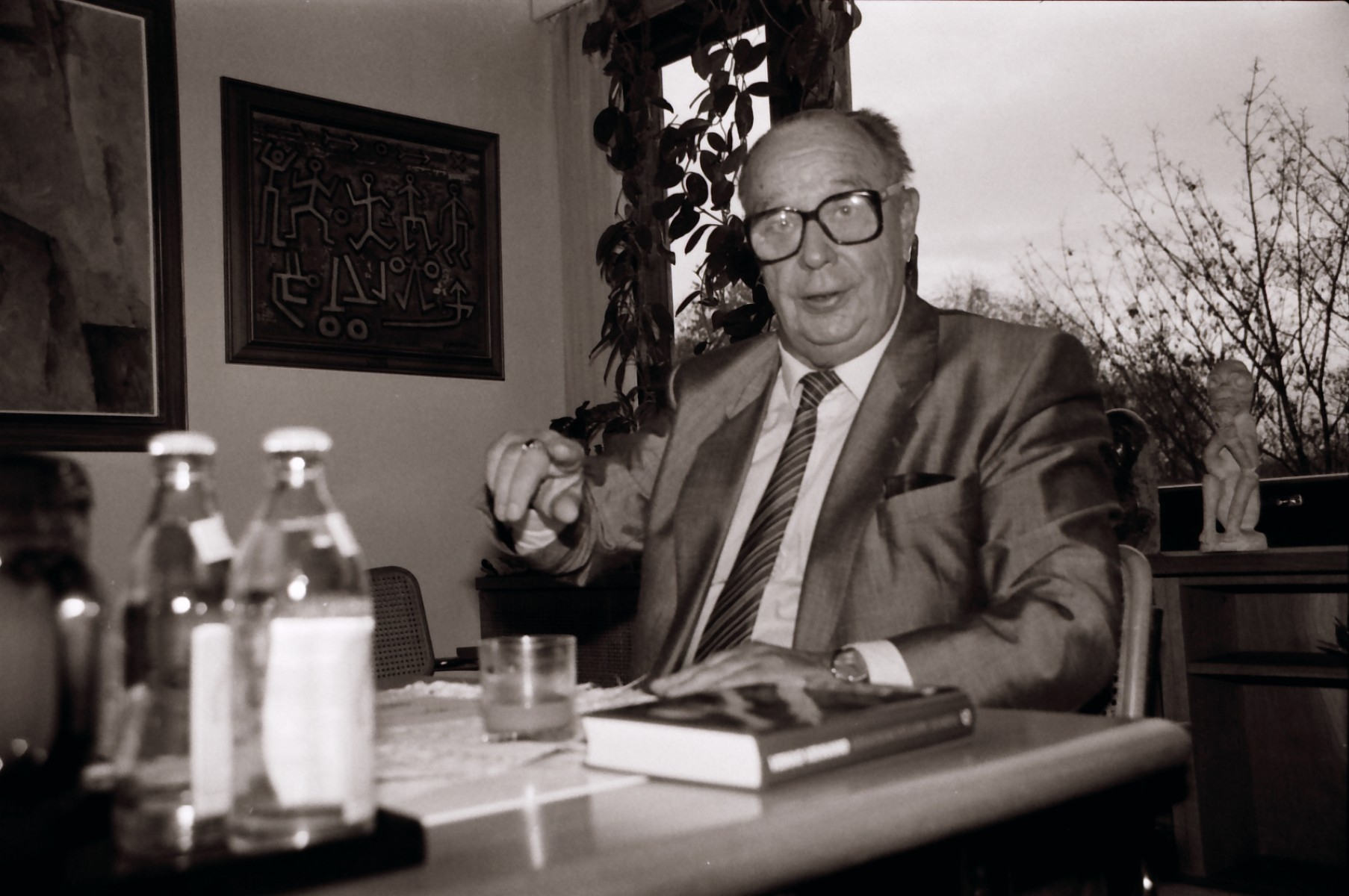 Finnish politician Veikko Vennamo at his home in 1989.